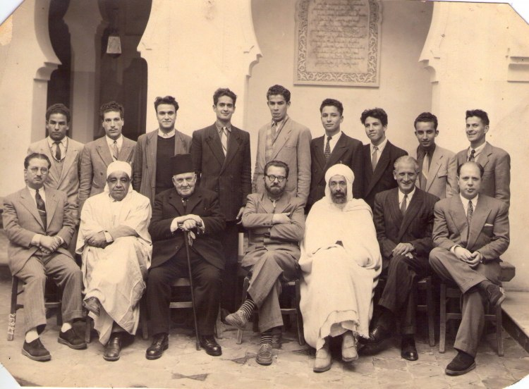 Les professeurs de la Médersa de Tlemcen et leurs élèves en 1950. Au 1er rang, de gauche à droite : MM. Foufa, Naïmi, Taleb, Janier et Zerdoumi.